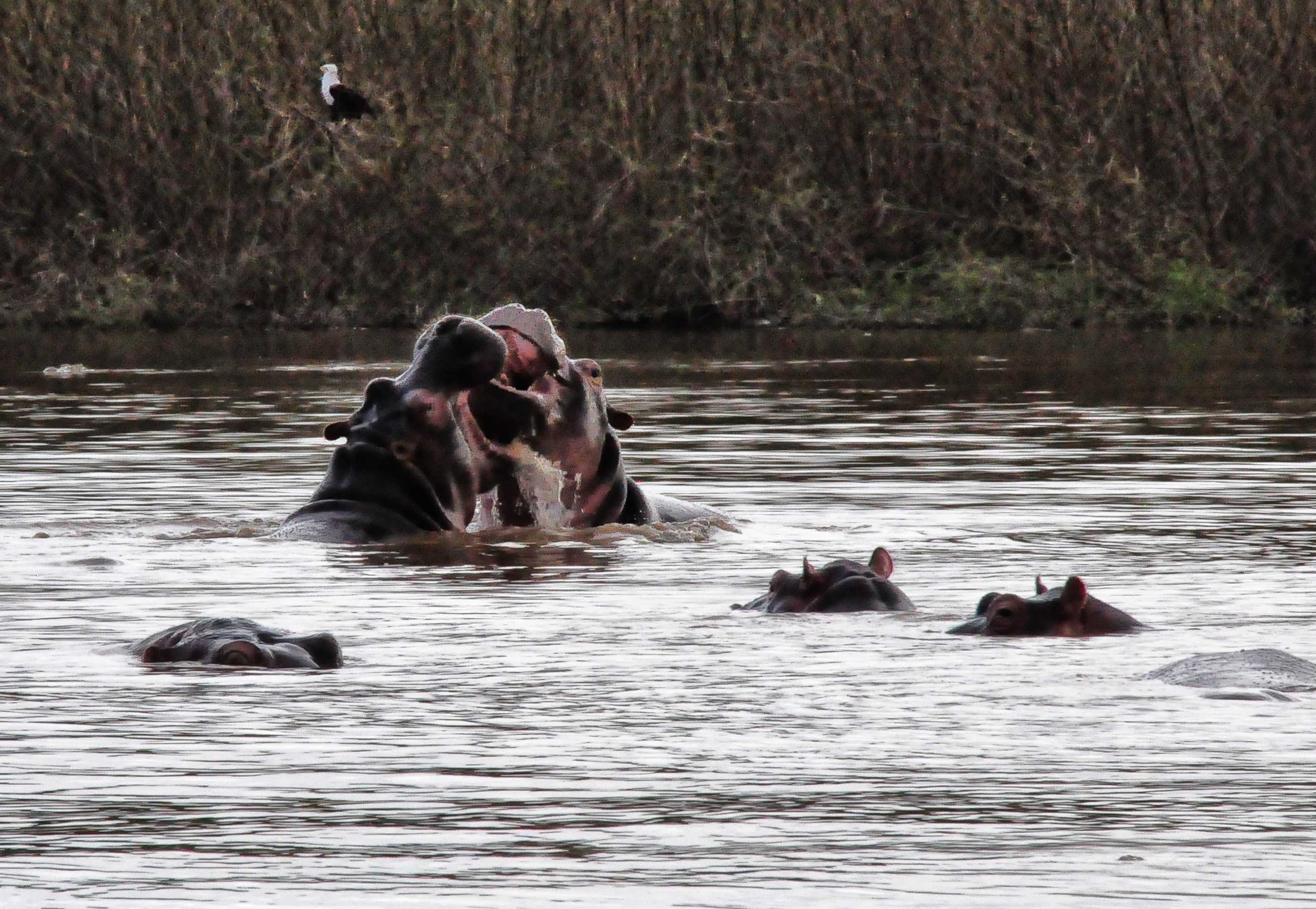 Hippo Play, Ethiopia